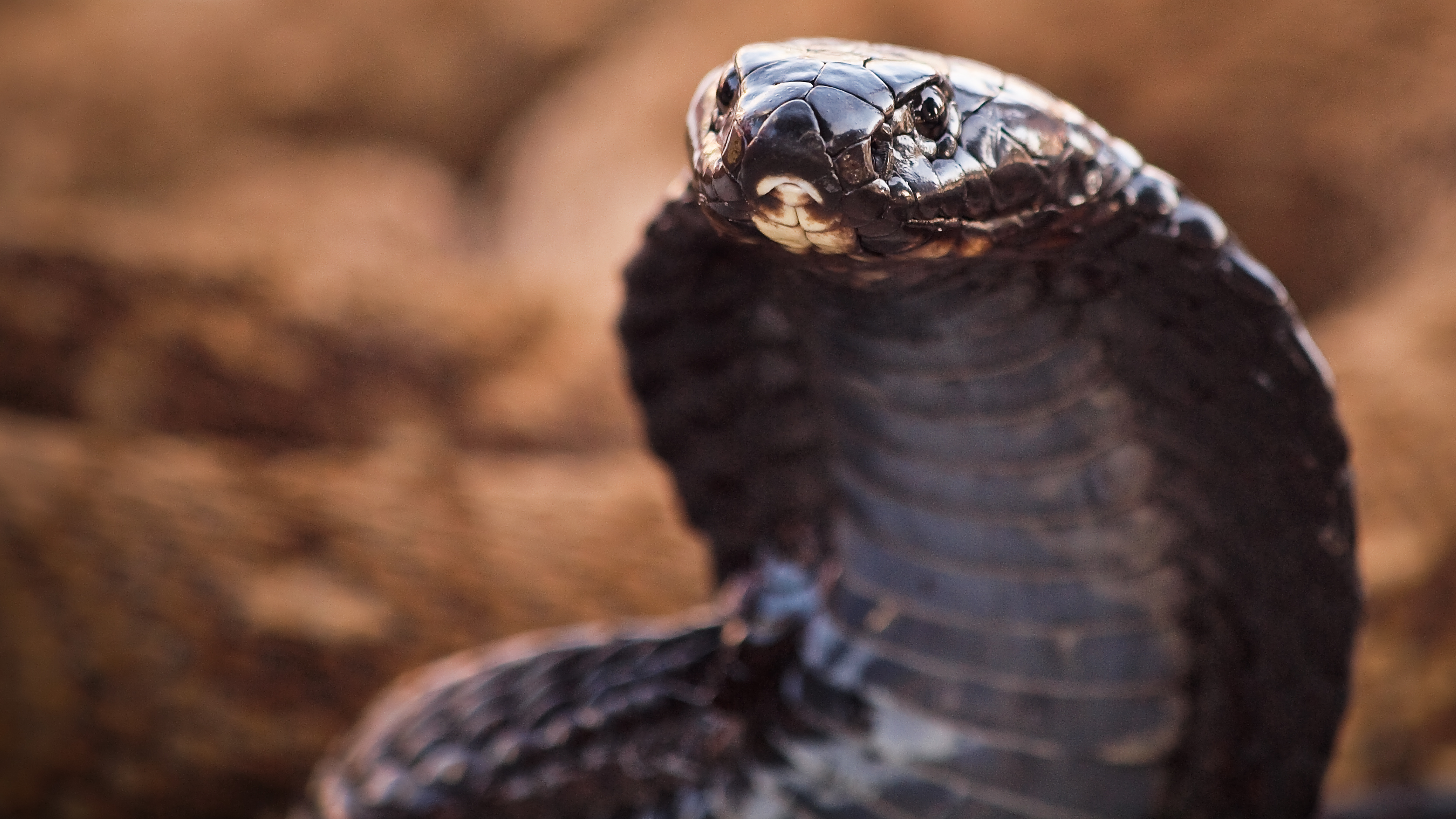 A black Moroccan Naja haje.